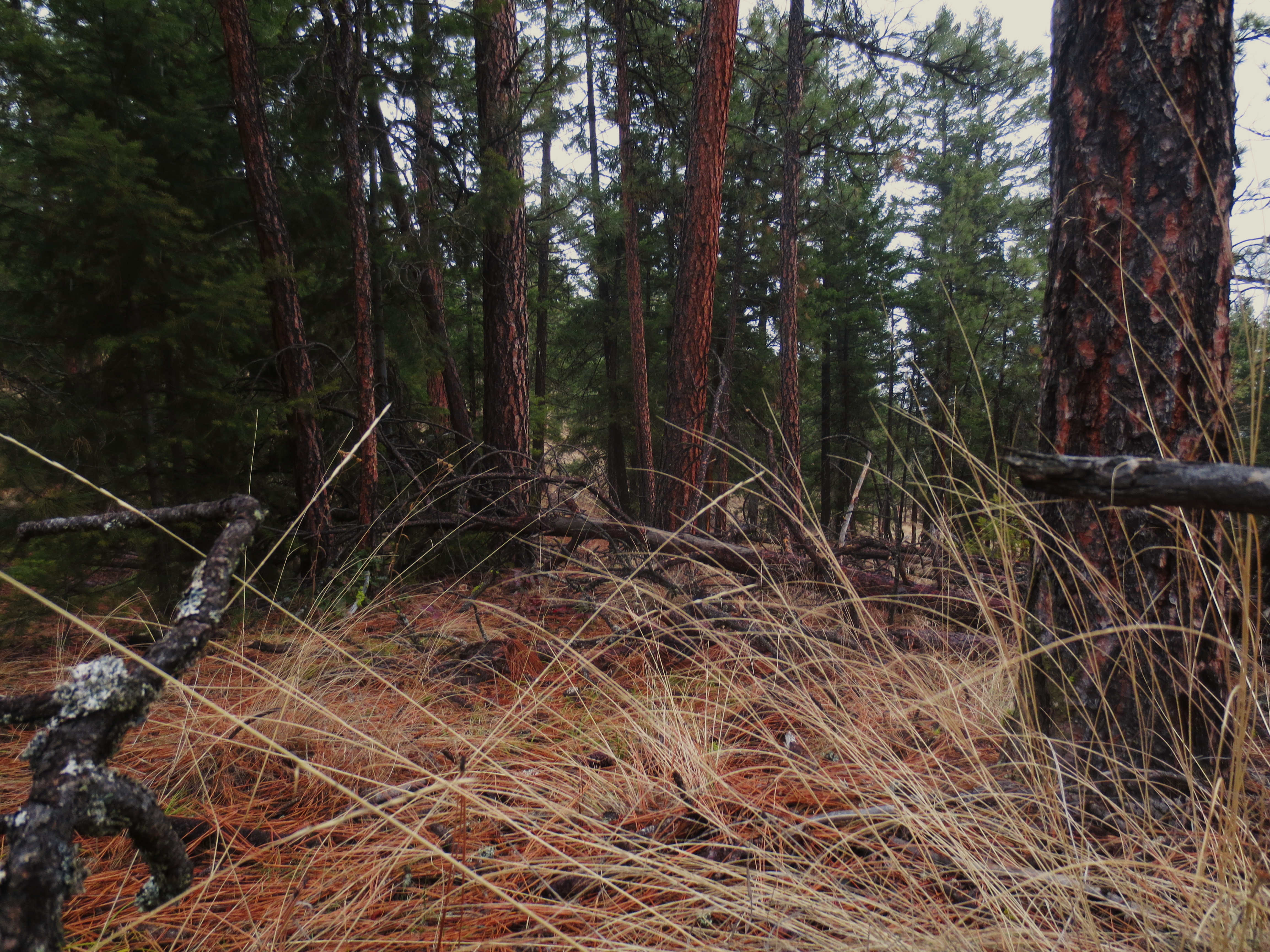 Rainy Early Winter Morning on Kirschner Mountain